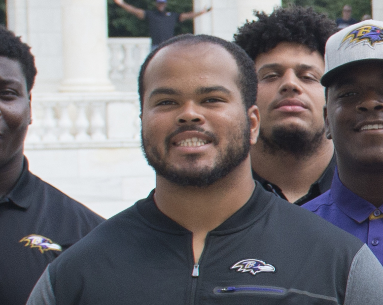 Players from the Baltimore Ravens at Arlington National Cemetery as part of the Army's and the NFL's community outreach program on August 21, 2017.